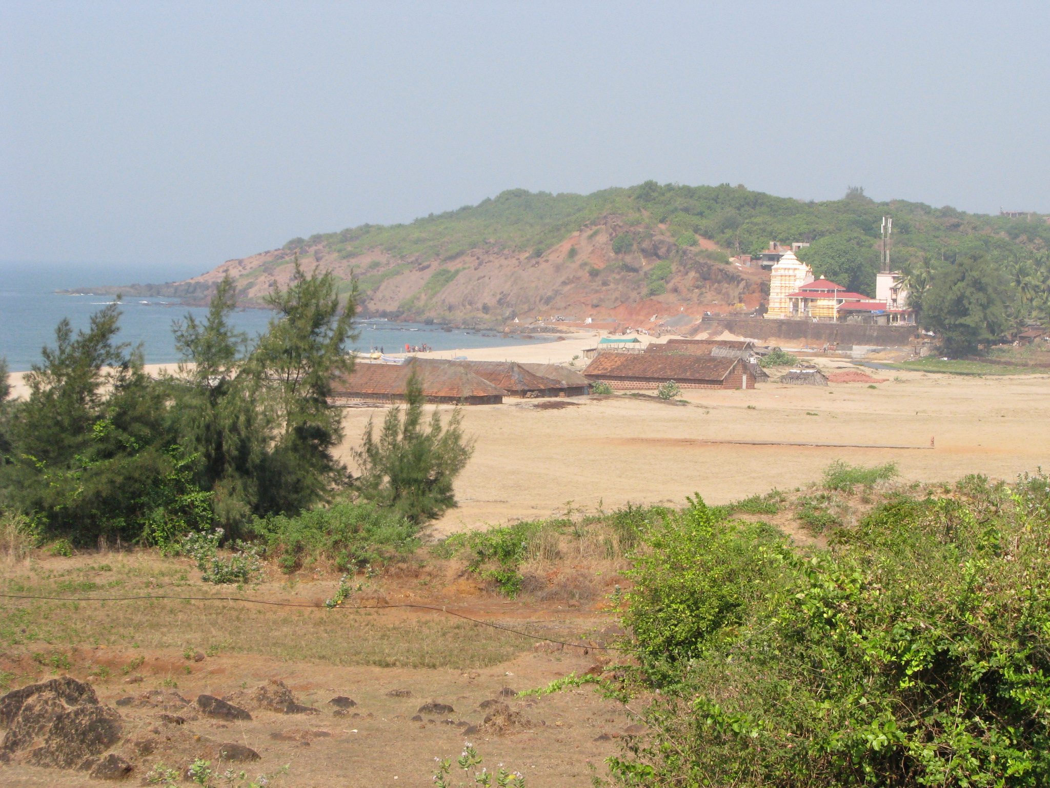 Picture of Kunakeshwar Temple and Beach.